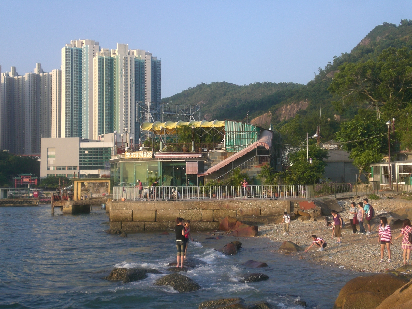 觀塘區 海岸 鯉魚門海旁道 鯉魚門村